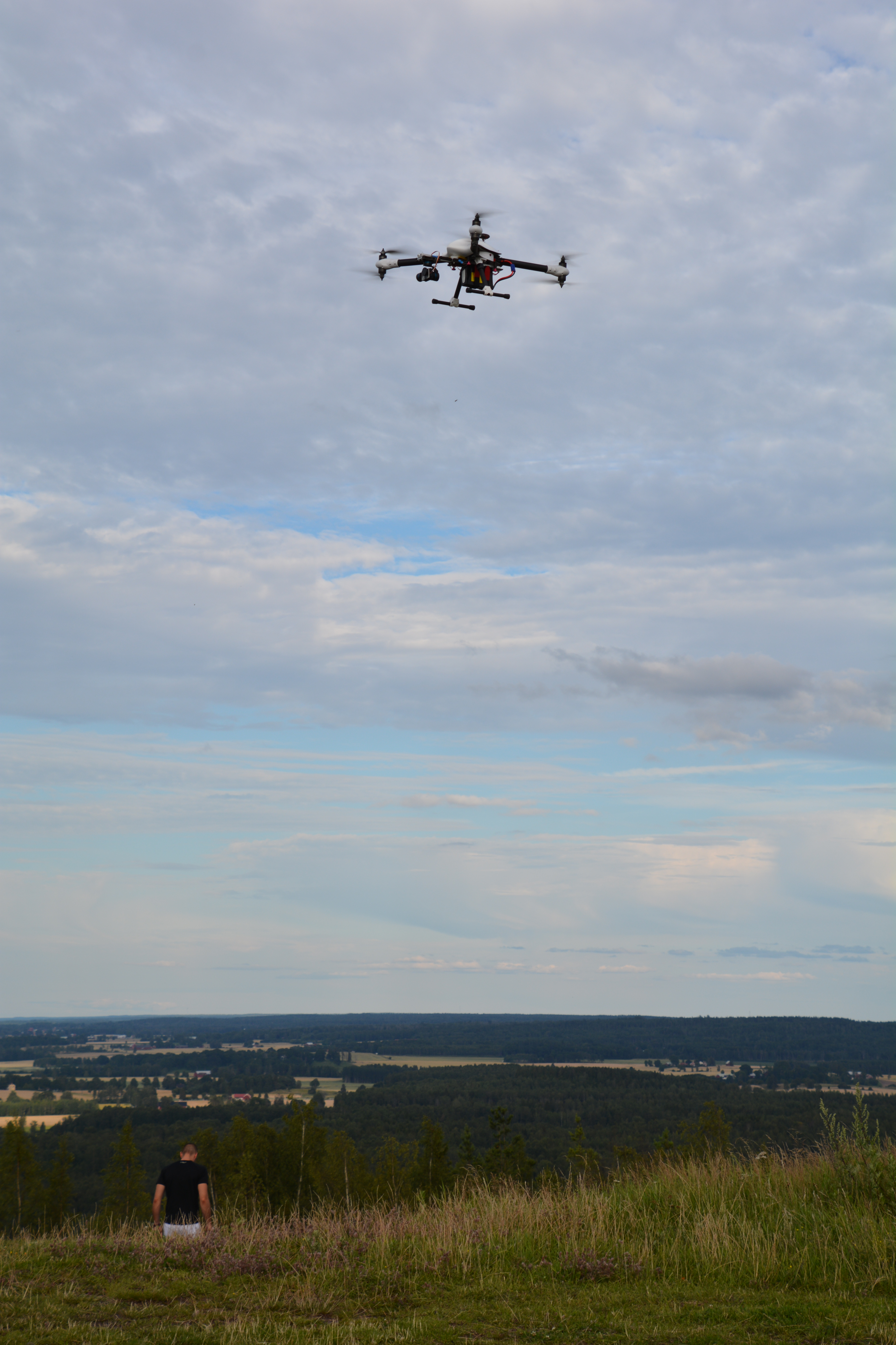 Drone with camera, and operator at Kvarntorpshögen, Kumla, Sweden.